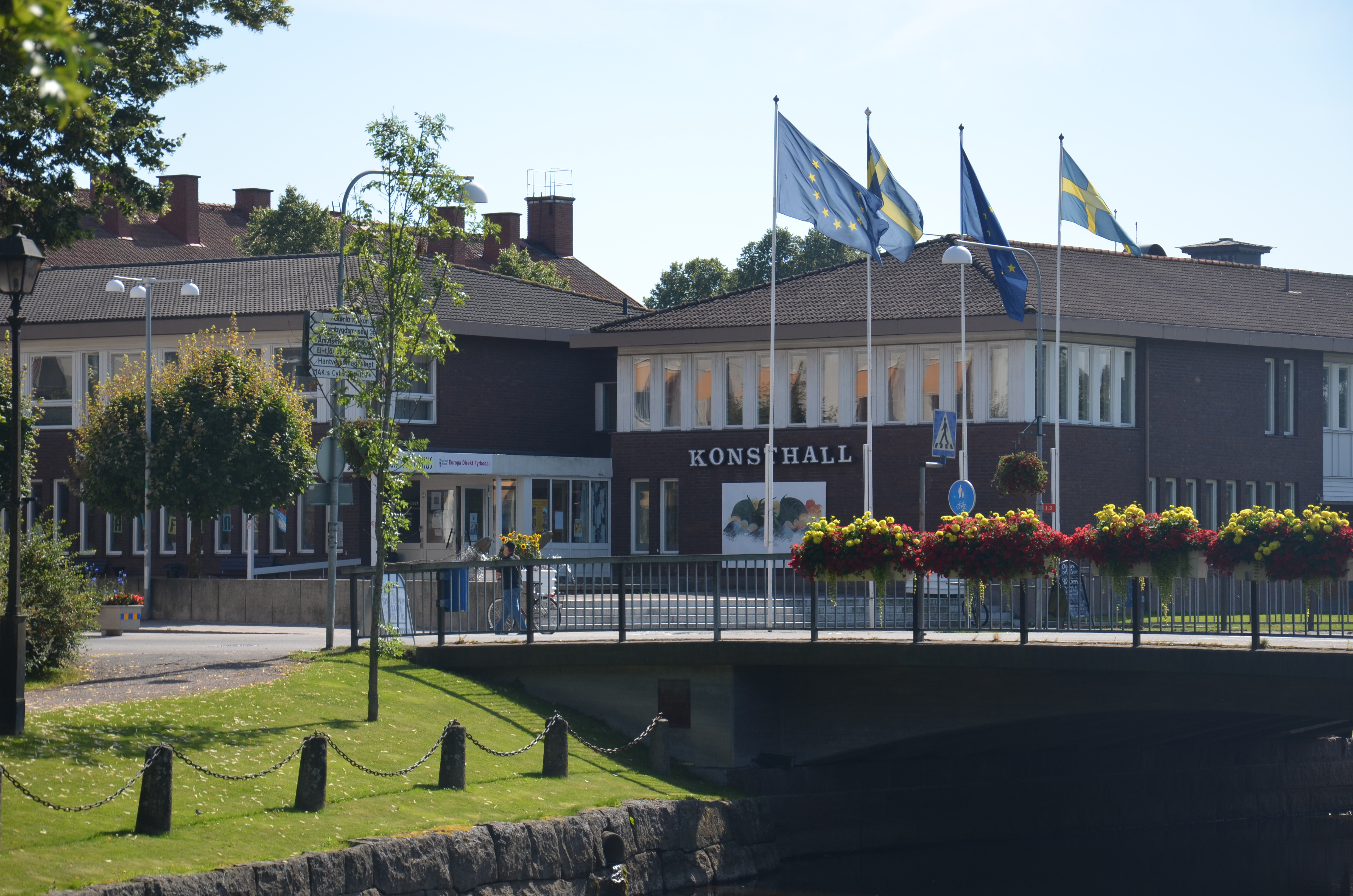 Åmåls konsthall